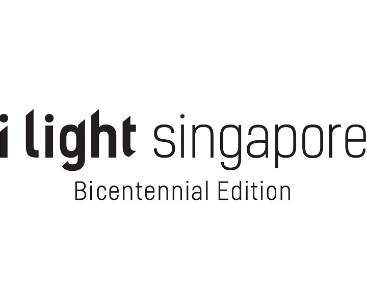 Event logo of i Light Singapore - Bicentennial Edition